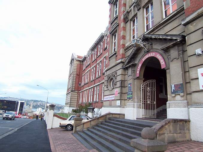 King Edward Technical College, Dunedin